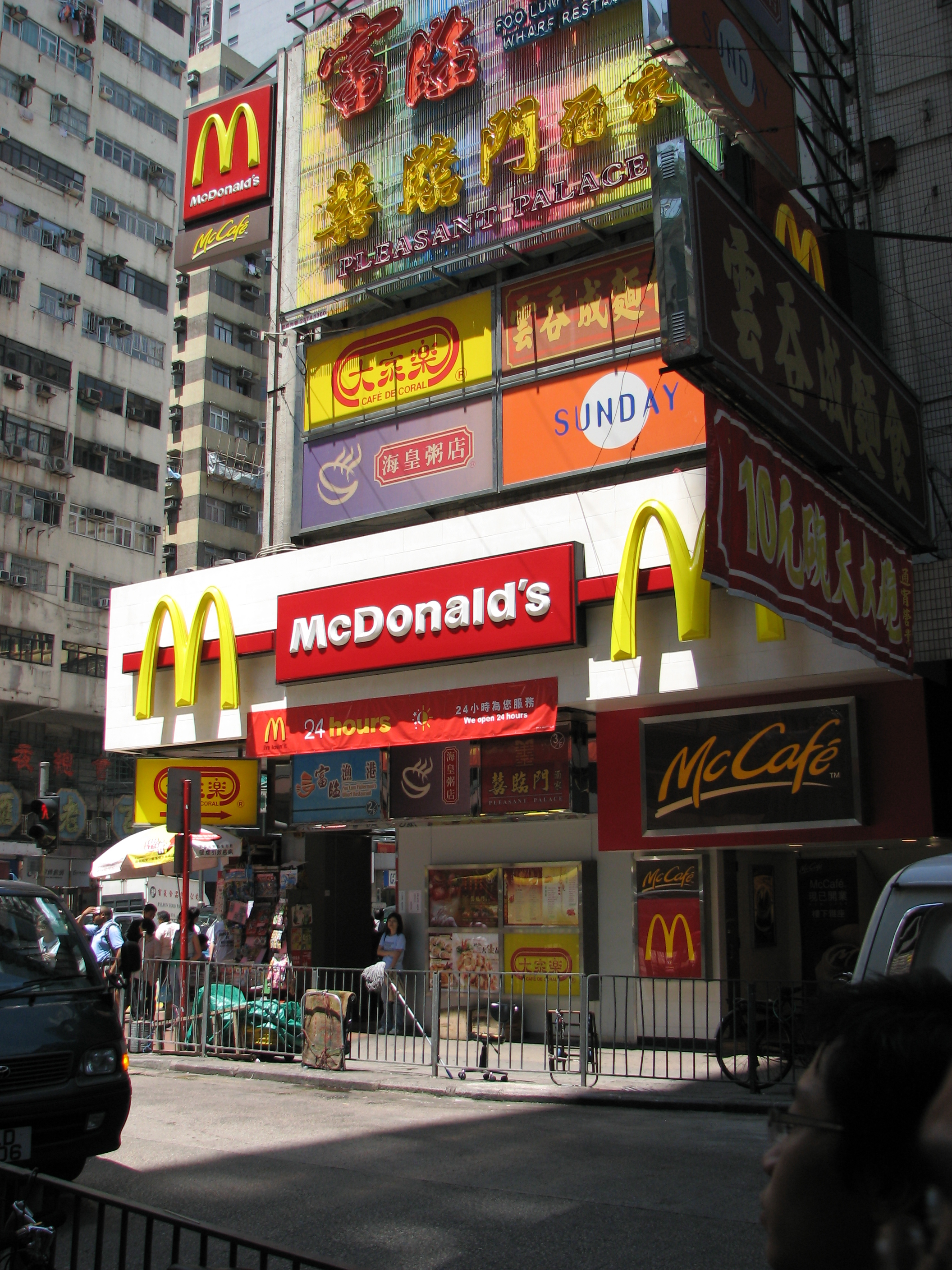 On Jordan Road close to Jordan MTR subway station on the Tsuen Wan Line. Basement, Pak Shing Building, No. 31 - 37 Jordan Road